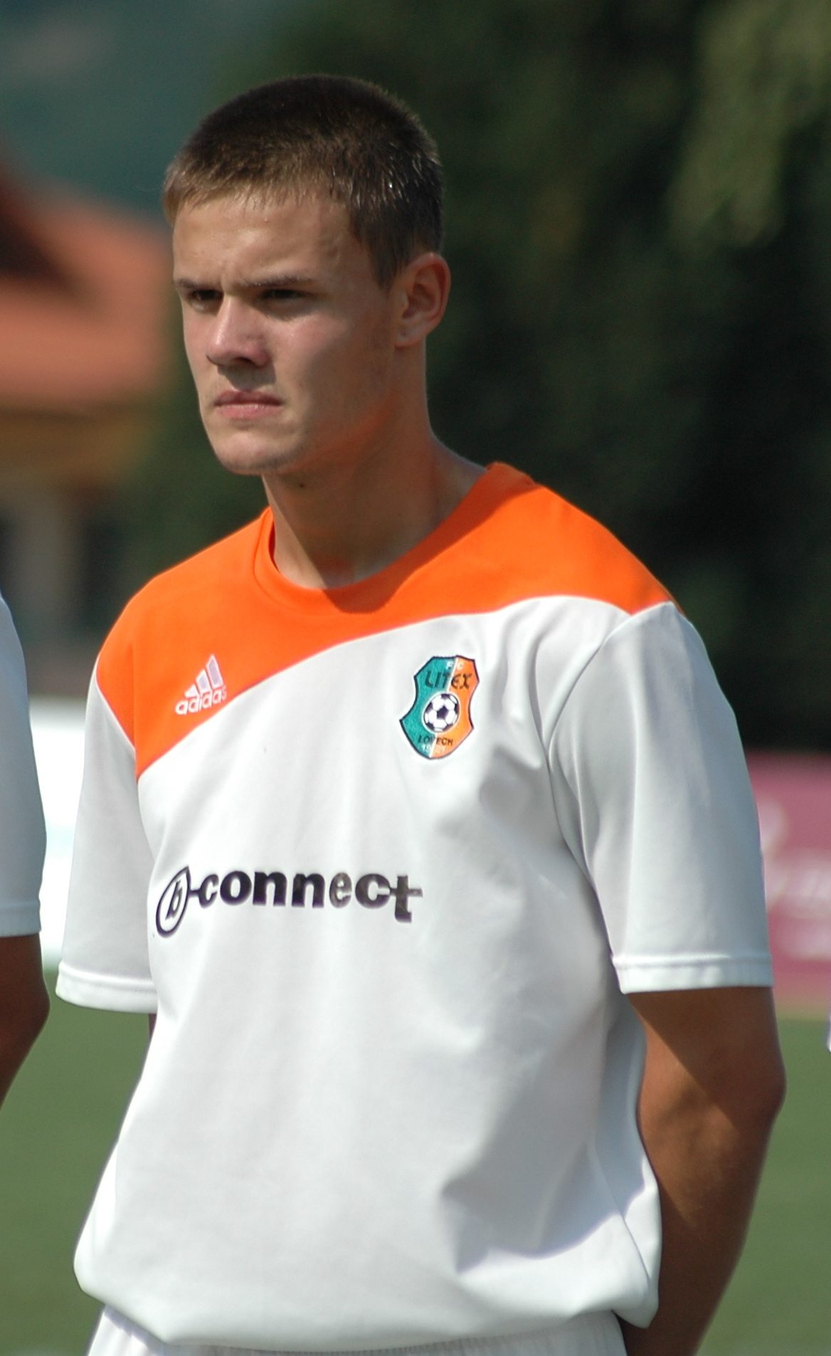 Christian Tafradjiyski